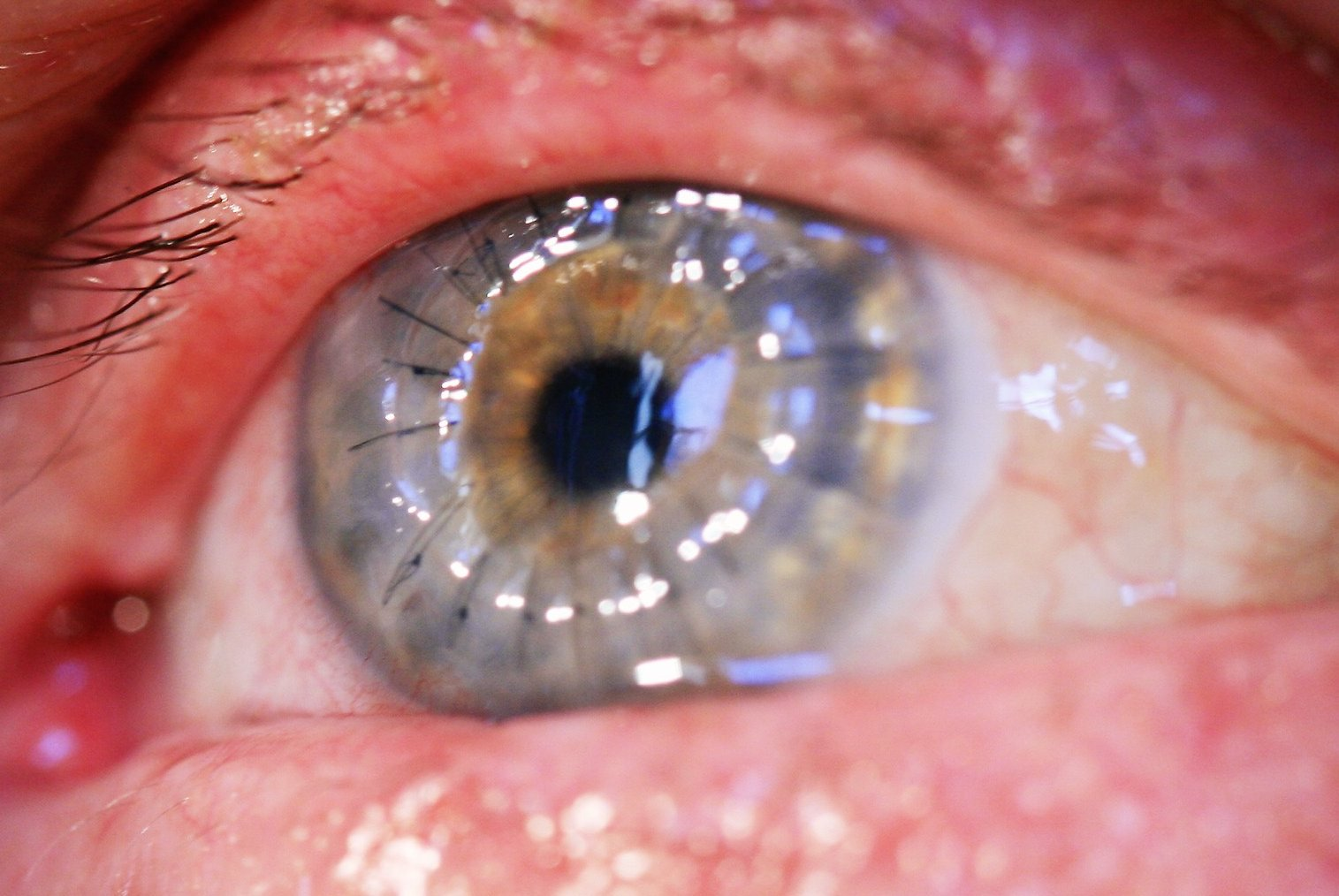 Corneal transplant 2 weeks after surgery. Operation carried out at University Hospital Cork, Ireland by surgeon Mr.Aiden Murray.The sutures are 1.5 thousandth of an inch thick nylon.The picture clearly shows the diameter of the donor cornea which came from the Rocky Mountain Lions Eye Bank in Denver, Colorado.